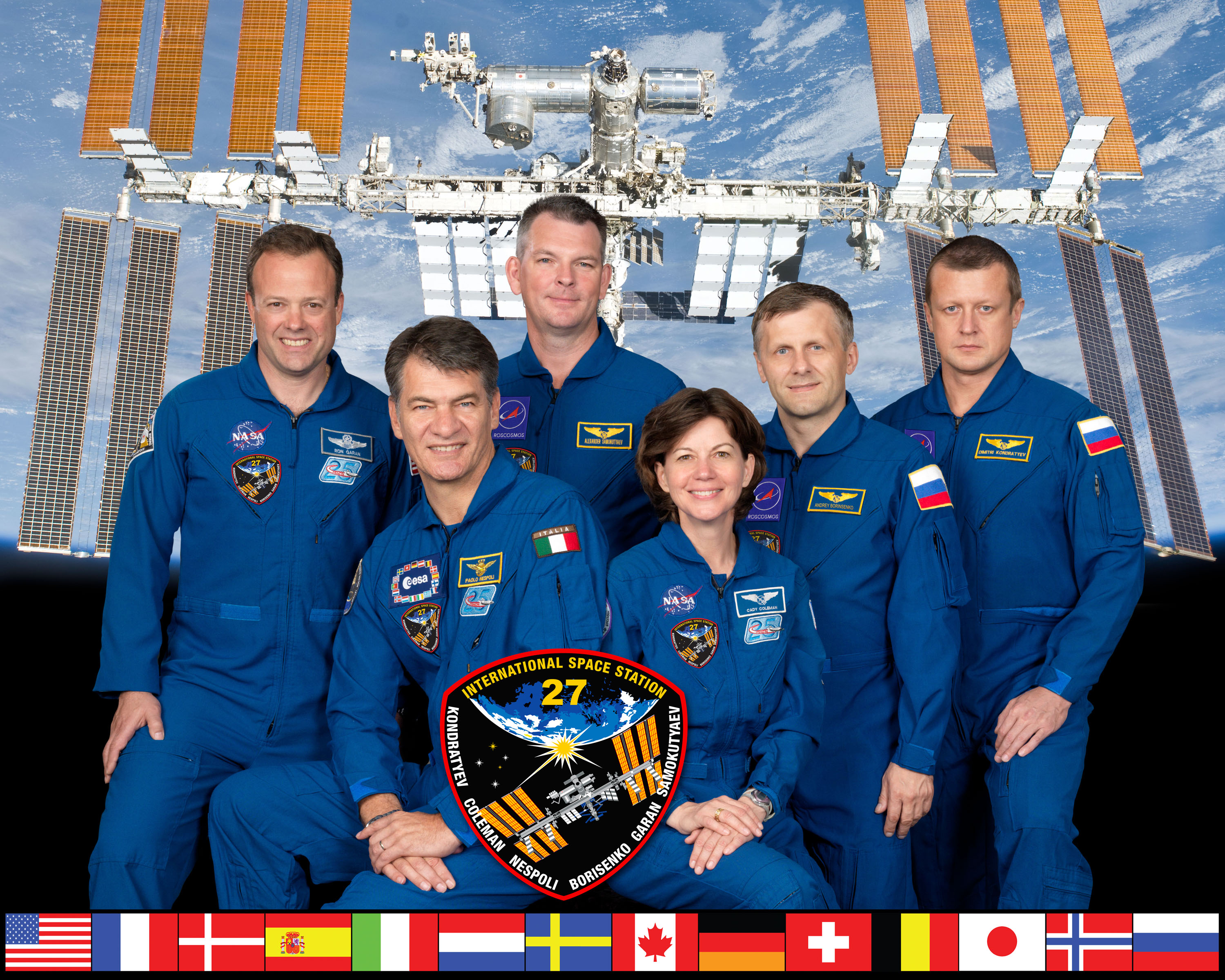 Expedition 27 crew members take a break from training at NASA's Johnson Space Center to pose for a crew portrait. Pictured from the right are Russian cosmonaut Dmitry Kondratyev, commander; Russian cosmonaut Andre Borisenko, NASA astronaut Catherine Coleman, Russian cosmonaut Alexander Samokutyayev, European Space Agency (ESA) astronaut Paolo Nespoli and NASA astronaut Ron Garan, all flight engineers.